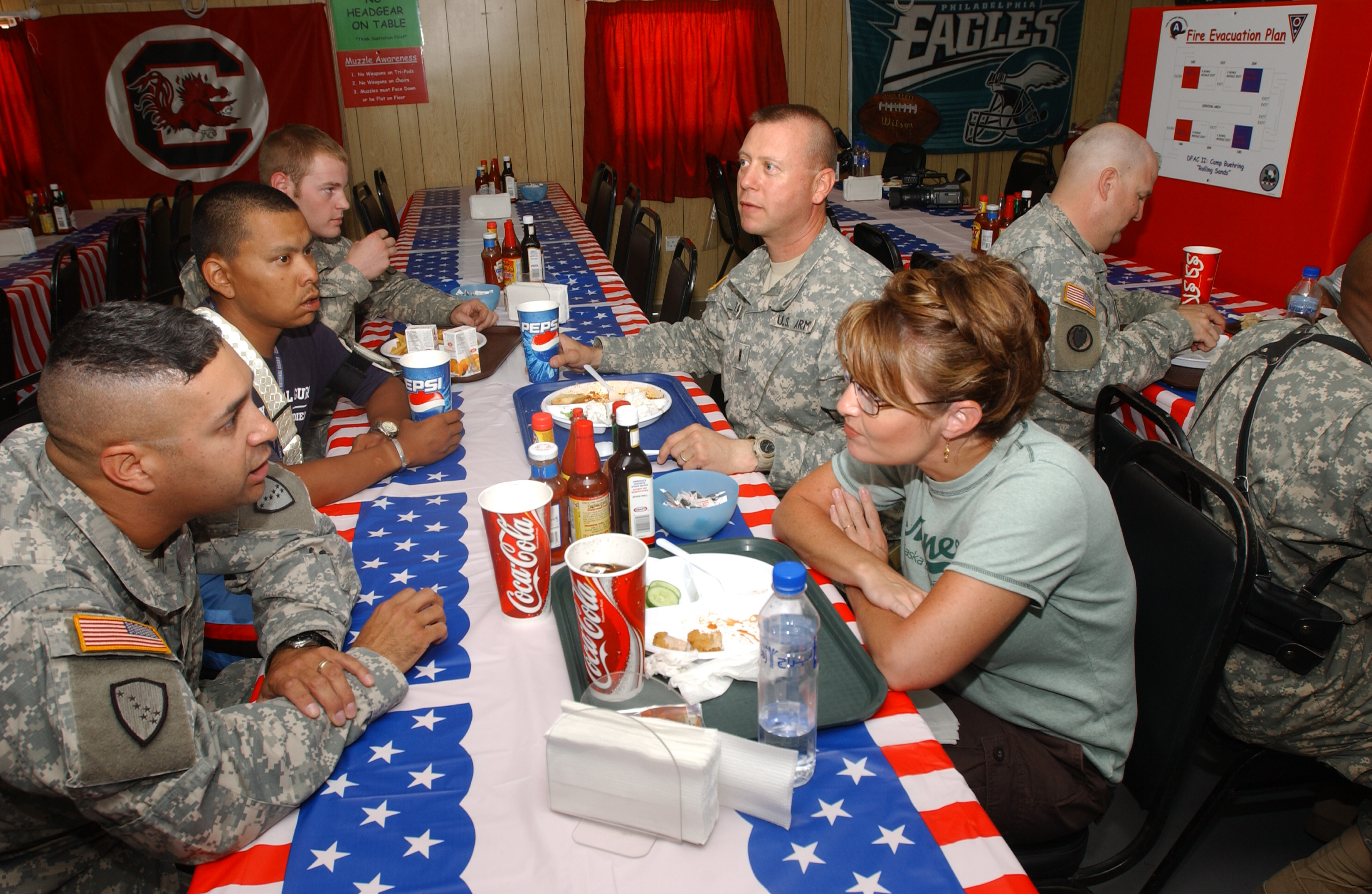 Camp Buehring, Kuwait - Alaska Governor Sarah Palin visits Soldiers of 3rd Battalion, 297th Infantry Regiment, Alaska National Guard at the life support area of the dining facility in Kuwait July 24. Palin visited the Soldiers to learn about thier mission in Kuwait.